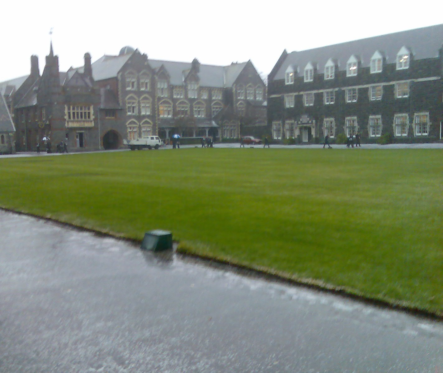 The Christ's College Quad and buildings during a hail storm